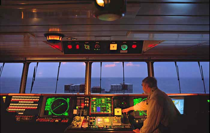 Boat bridge of a cargo ship in the evening.